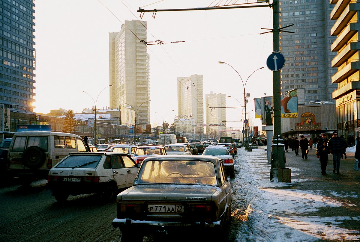 The New Arbat Street, Moscow